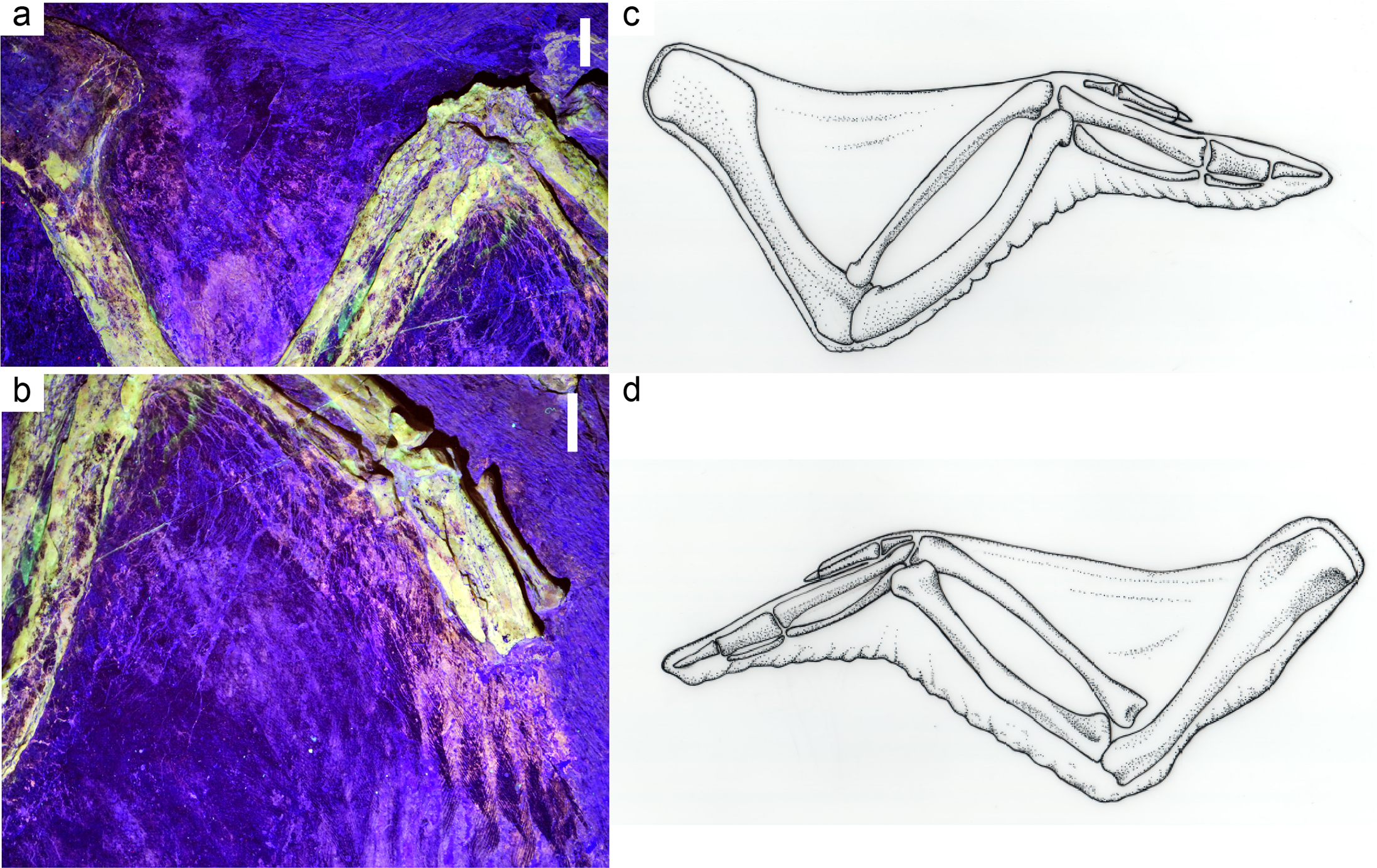 Photographs of Confuciusornis soft tissue under laser fluorescence from IVPP V13156. (A) Wing showing propatagium. Scale bar = 5 mm. (B) Wing showing postpatagium. Scale bar = 5 mm. (C) Line drawing of a modern Gallus gallus wing showing outline of patagium in relation to the bones of the forelimb, dorsal view. (D) Line drawing of a modern Gallus gallus wing showing outline of patagium in relation to the bones of the forelimb, ventral view. (C) and (D) by Elizabeth Myers.